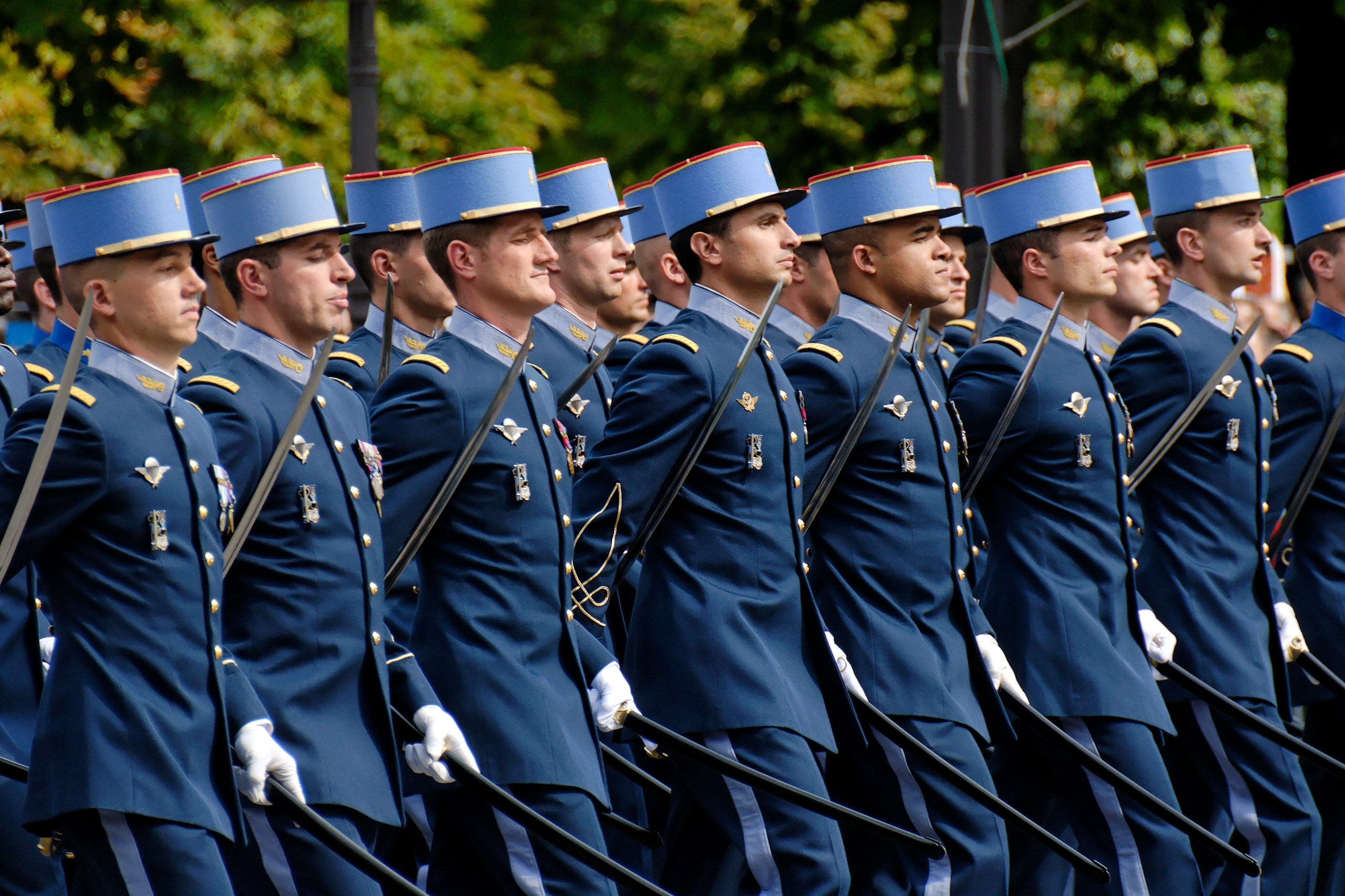 Cadets of the École militaire interarmes (French military academy) during the 2007 military parade on the Champs-Élysées.